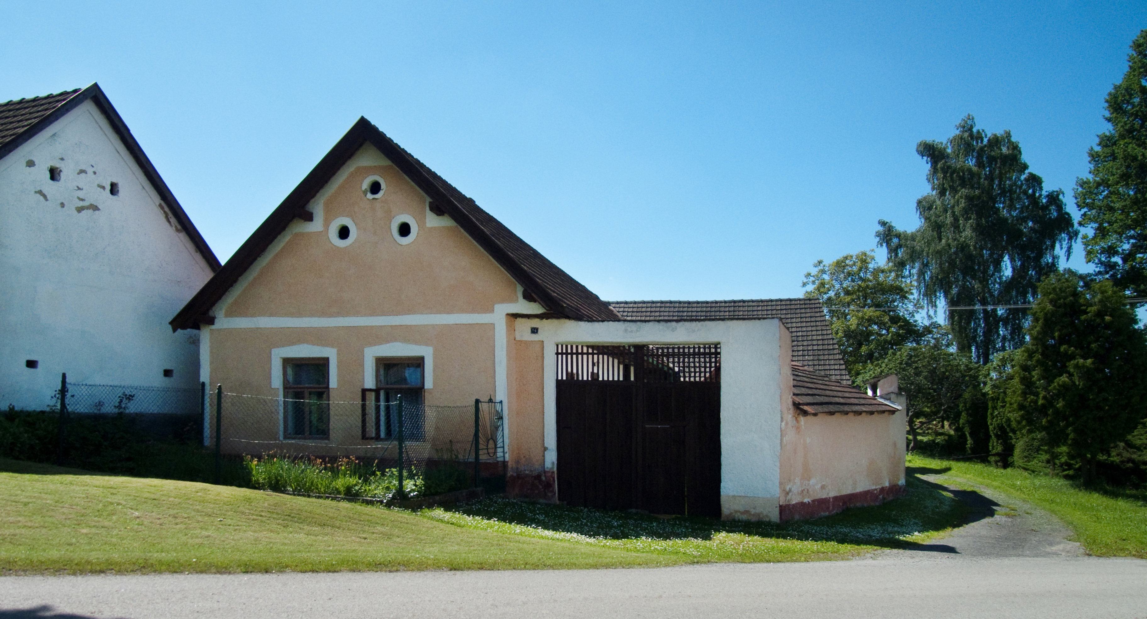 House No 14 in the village of Závsí, Tábor district, Czech Republic